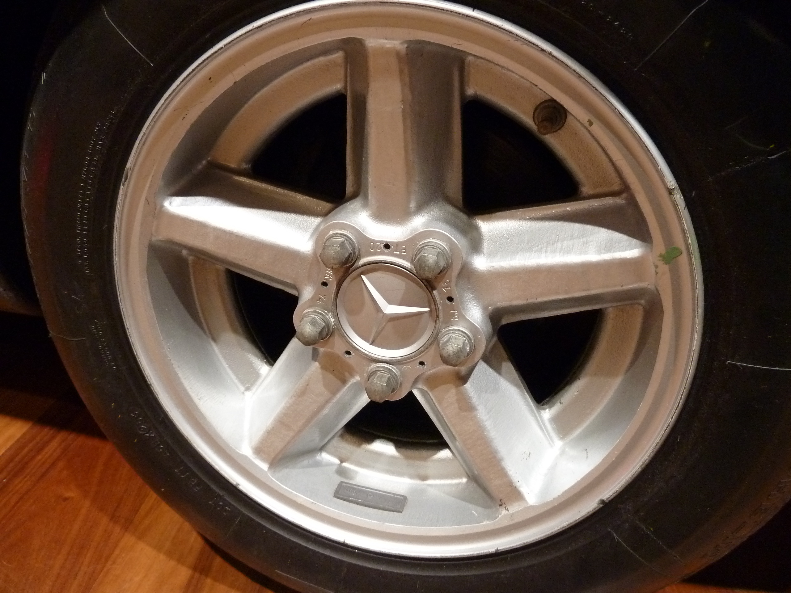 Mercedes-Benz C111-II in Mercedes-Benz Paris Champs Elysees